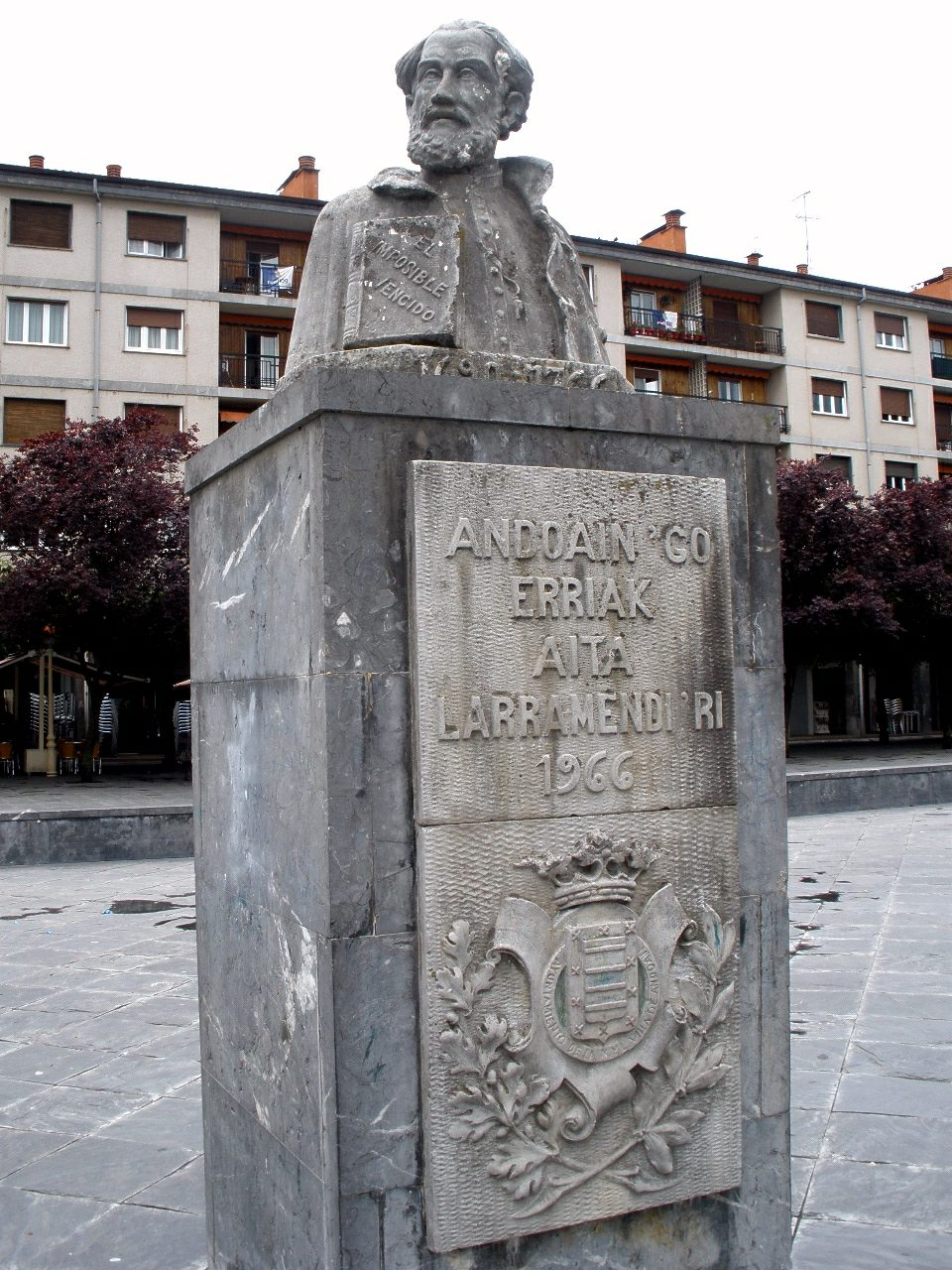 Monumento a alguien en Andoain (Guipúzcoa)